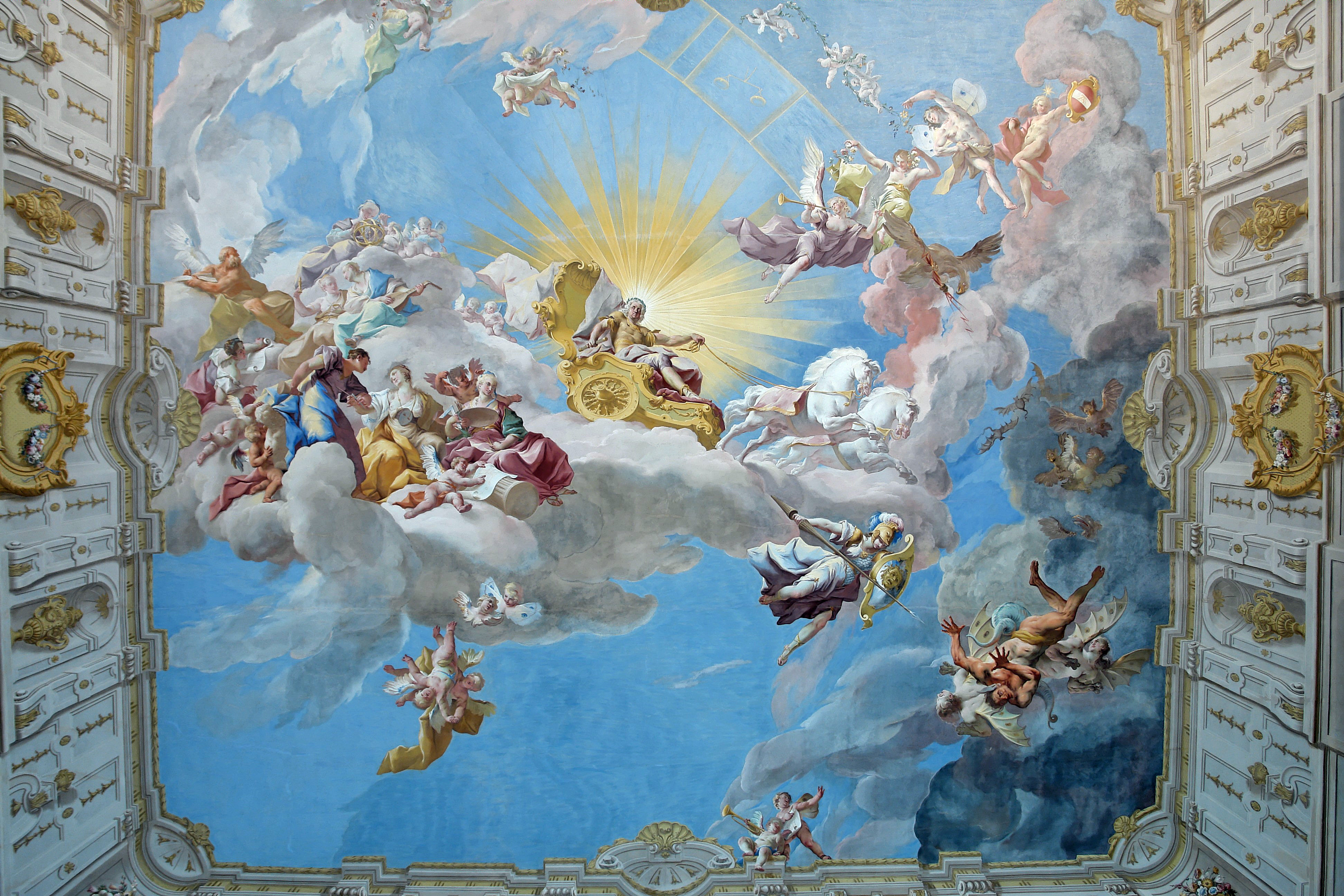 Apotheosis of Charles VI - Fresco of Paul Troger (1739) for the imperial Stair Case of the Göttweig Abbey